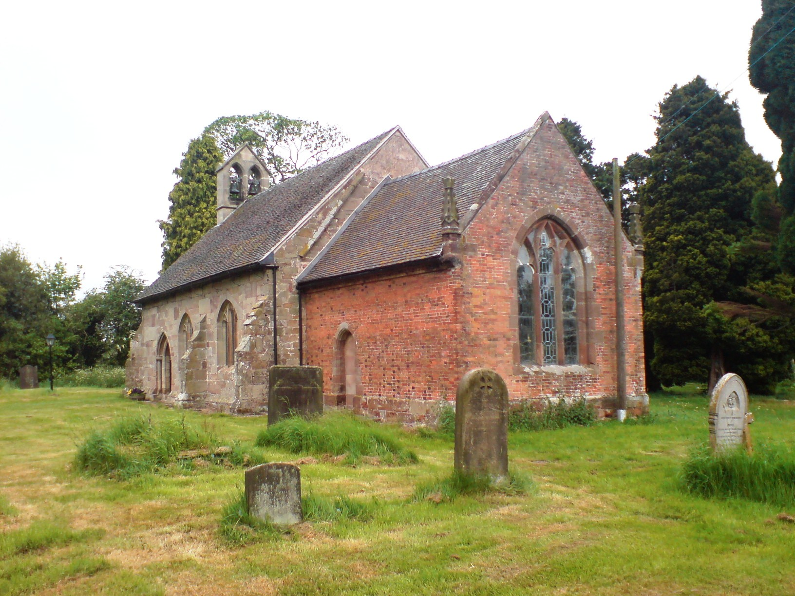 All Saints' parish church, Ranton, Staffordshire, seen from the southeast